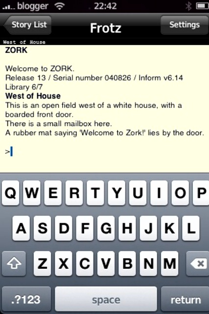 (Sent from my iPhone)